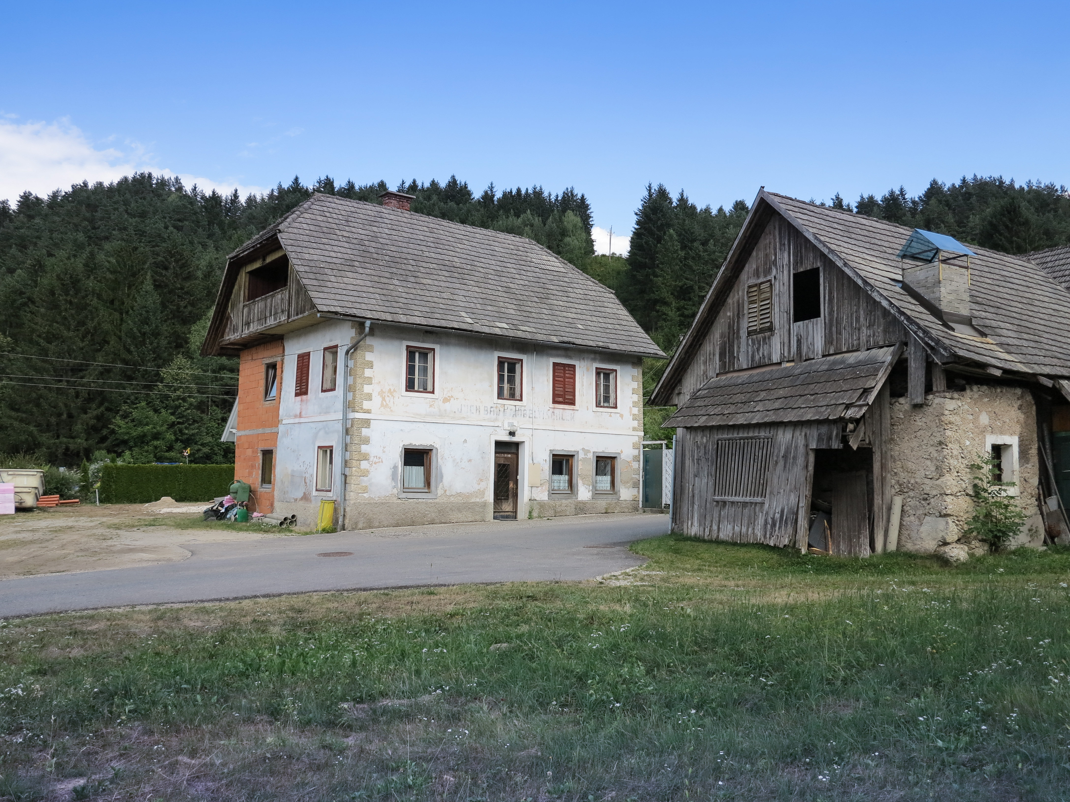 Old house in Gotschuchen in the municipality Sankt Margareten im Rosental, district Klagenfurt Land, Carinthia / Austria / EU.